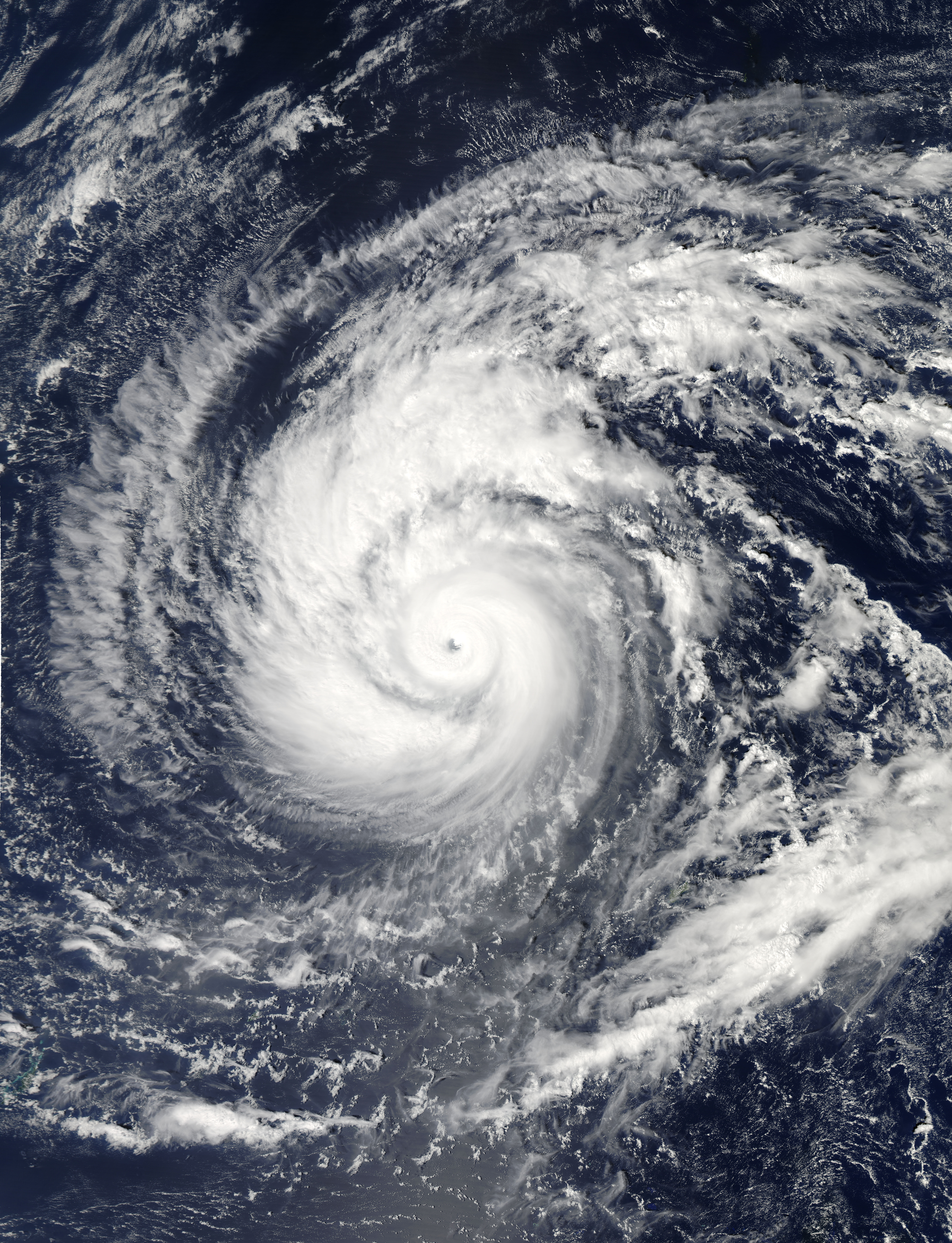 Typhoon Francisco (26W) in the Pacific Ocean on October 19,2013